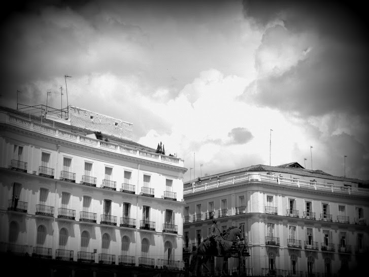 EDITED in to be a Black and white photograph, ref. Puerta del Sol in Madrid of the Real Casa de Correos by Professional Photographer David Adam Kess